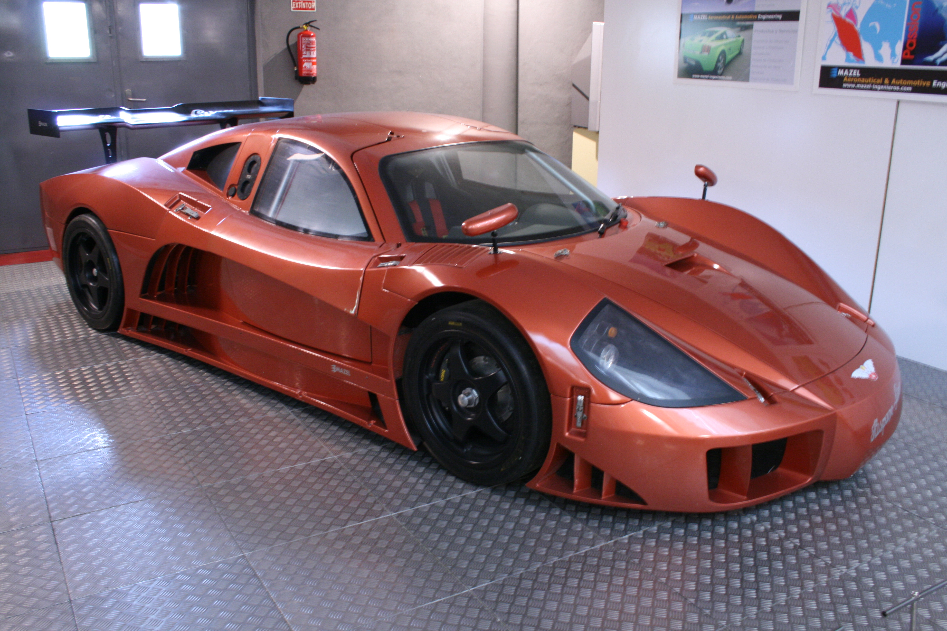 Hispano-Suiza H21 GTS